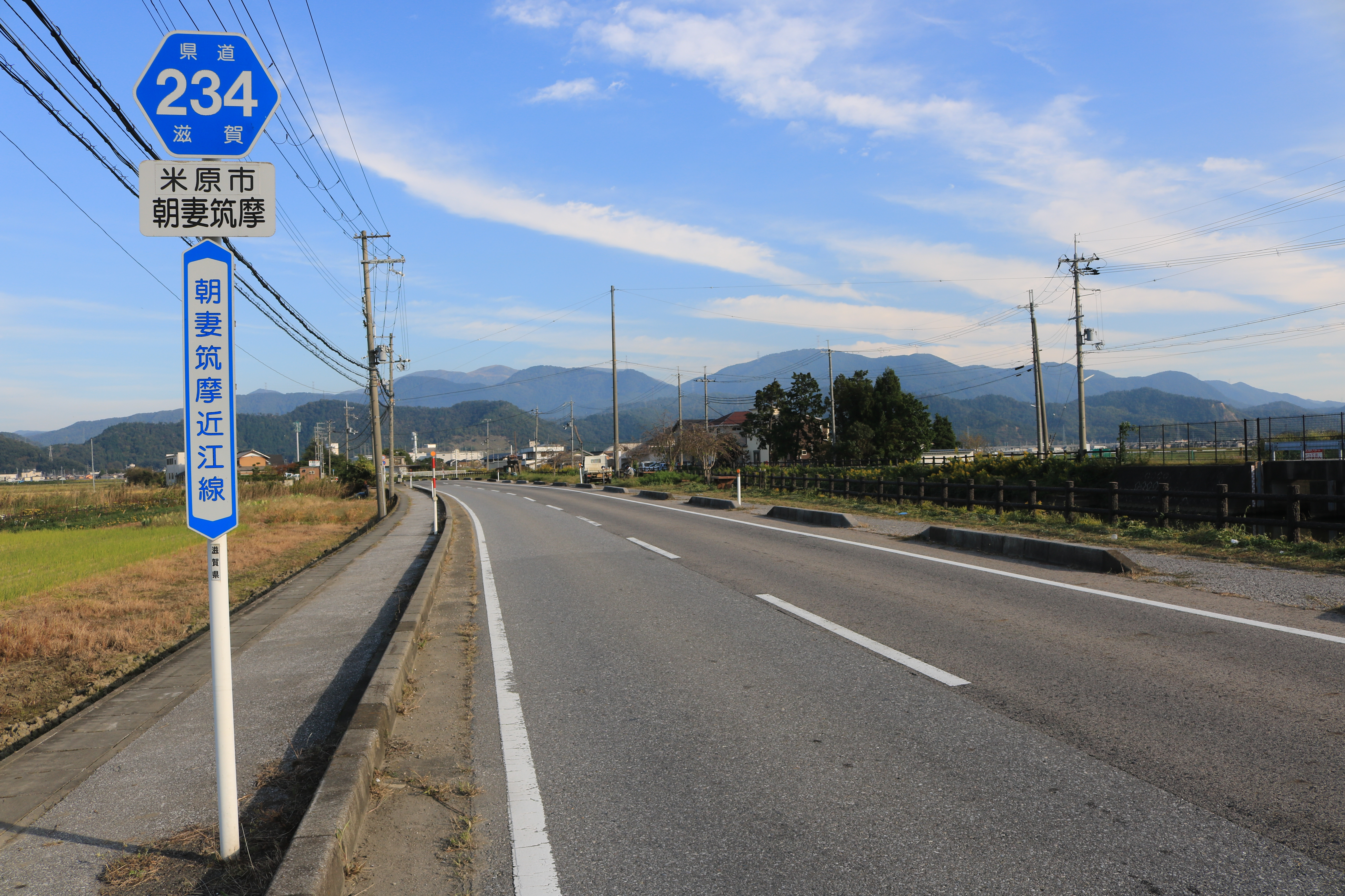 Shiga Prefectural Road Route 234 in Asazumachikuma, Maibara, Shiga prefecture, Japan.